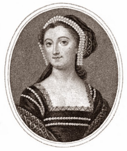 Elizabeth Montagu, as Anne Boleyn, by Christian Friedrich Zincke, in a friendship box, miniature, circa 1740.